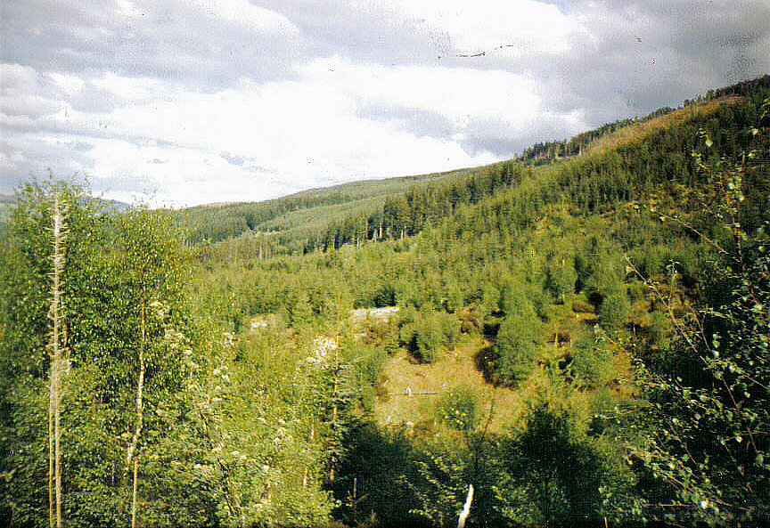 The forests above Balnain in 1999. Idonate it to the public doman.